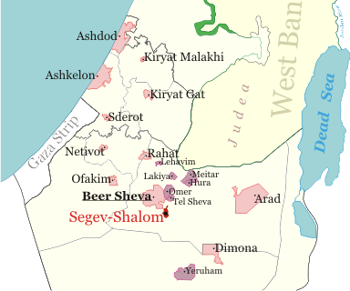 Location of Shaqib al-Salaam (Segev Shalom) within the South District of Israel.